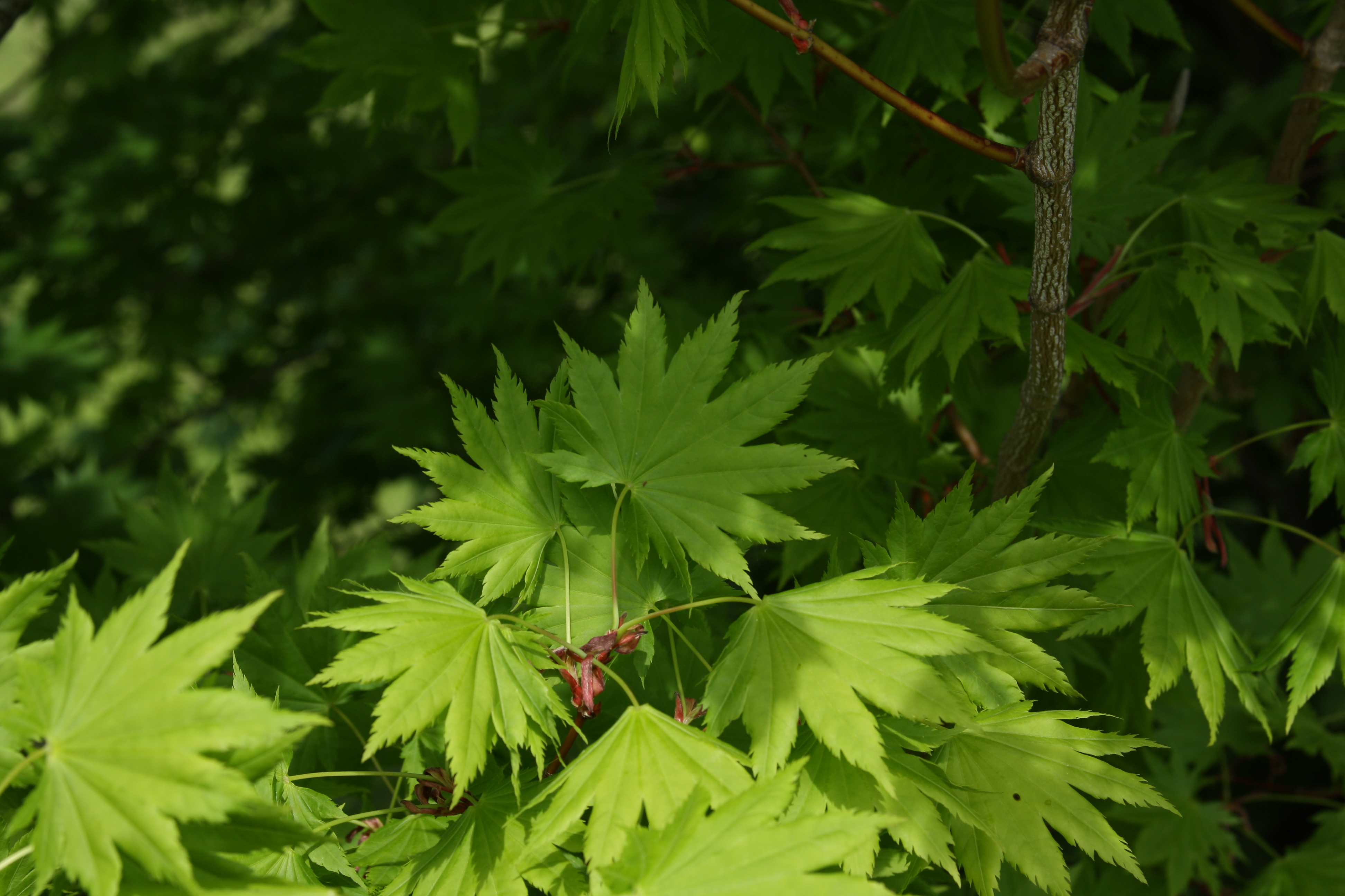 The young leaves of Acer japonicum, Botanical garden of Tallinn, Estonia